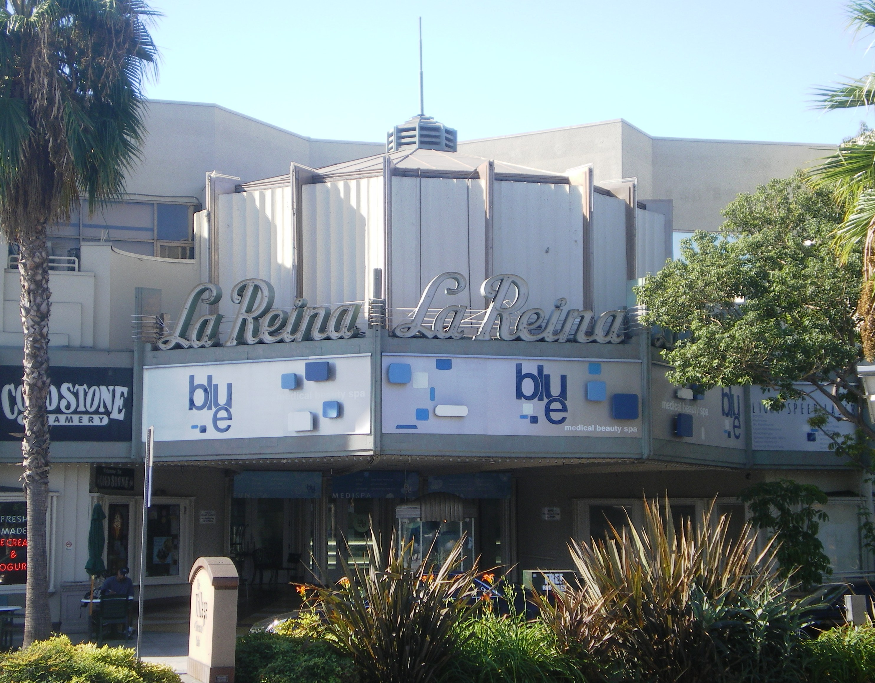 La Reina Theater — former cinema at 14626 Ventura Boulevard, Sherman Oaks, San Fernando Valley, California. • Designed by S. Charles Lee in 1937 for the Fox Theatres chain. After redevelopment in the 1980s, only the facade remains.